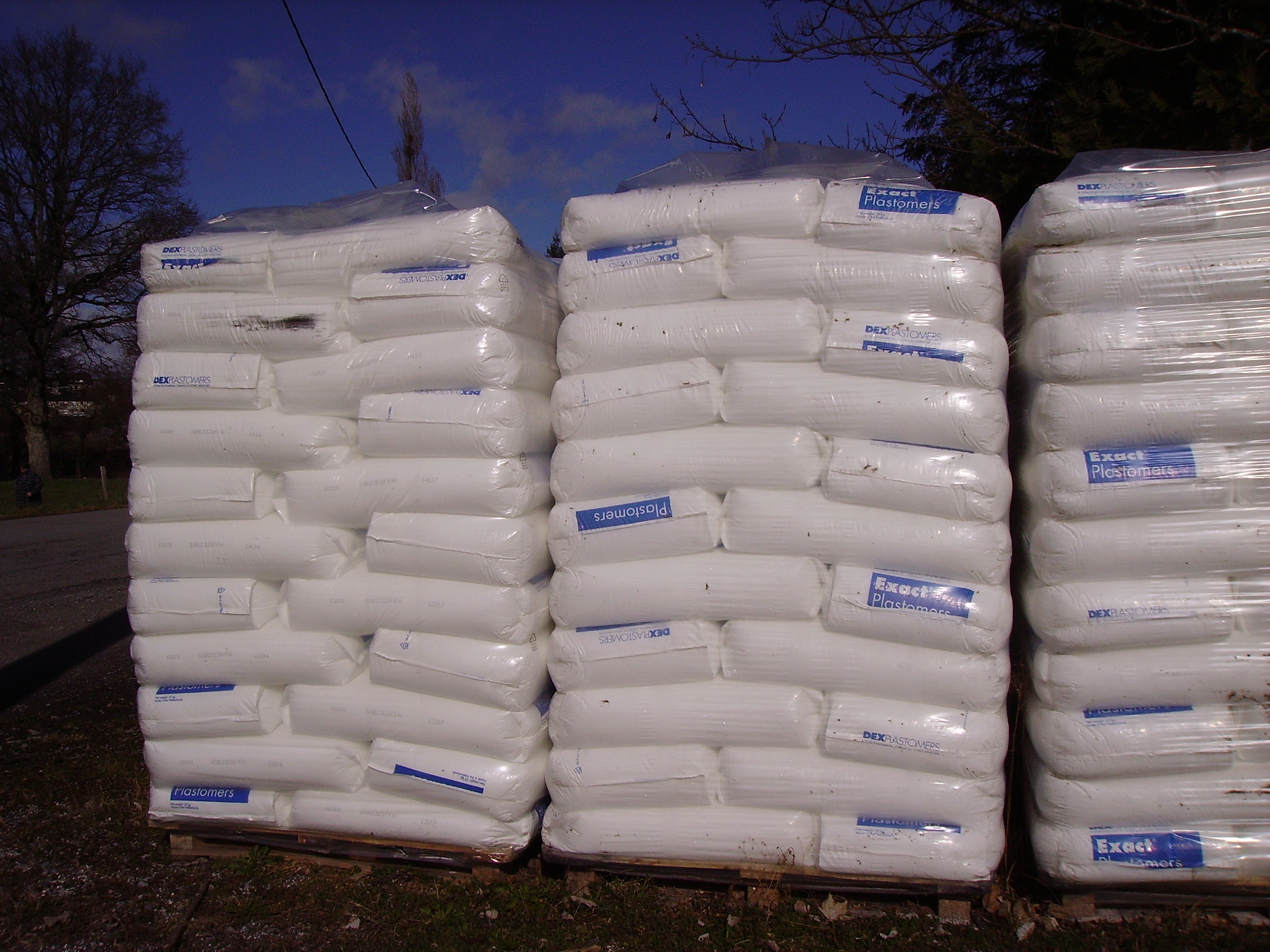 25 kg bags of plastomer granules: Exact 0201 by Dex Plastomers (ethylene-α-octene plastomer).